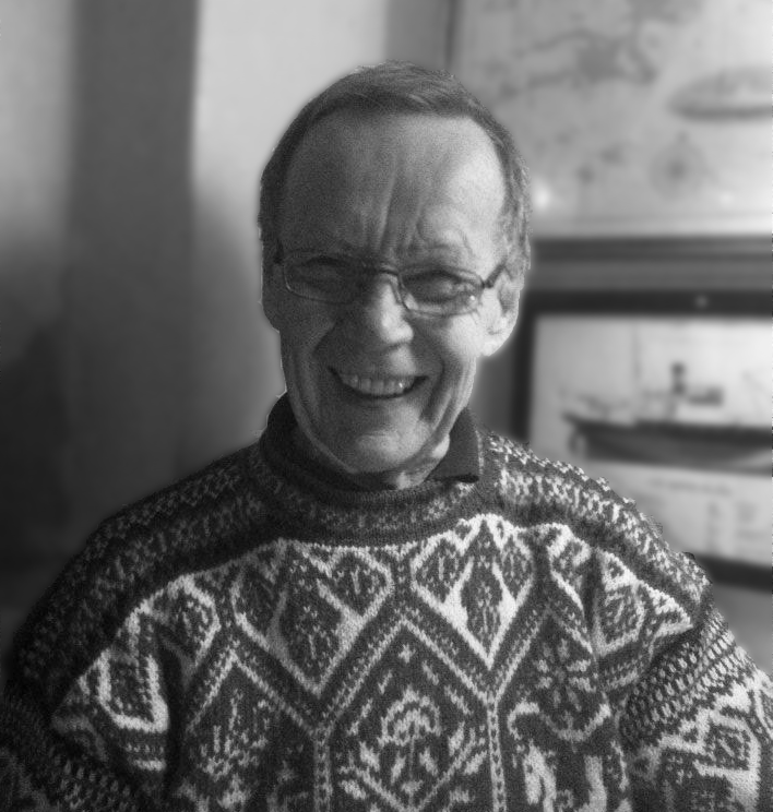 Norwegian composer John Persen in 2011